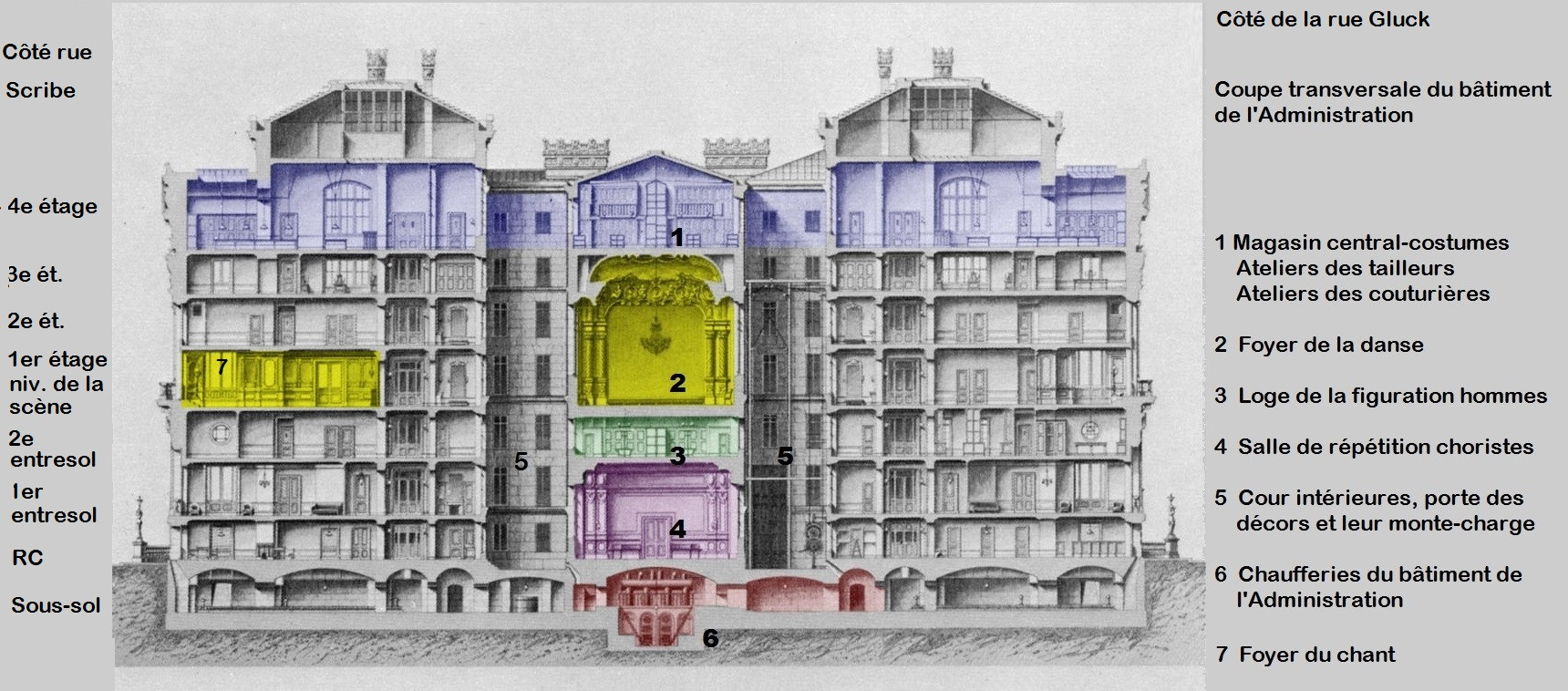 Opéra garnier architectural drawing/ north backstage